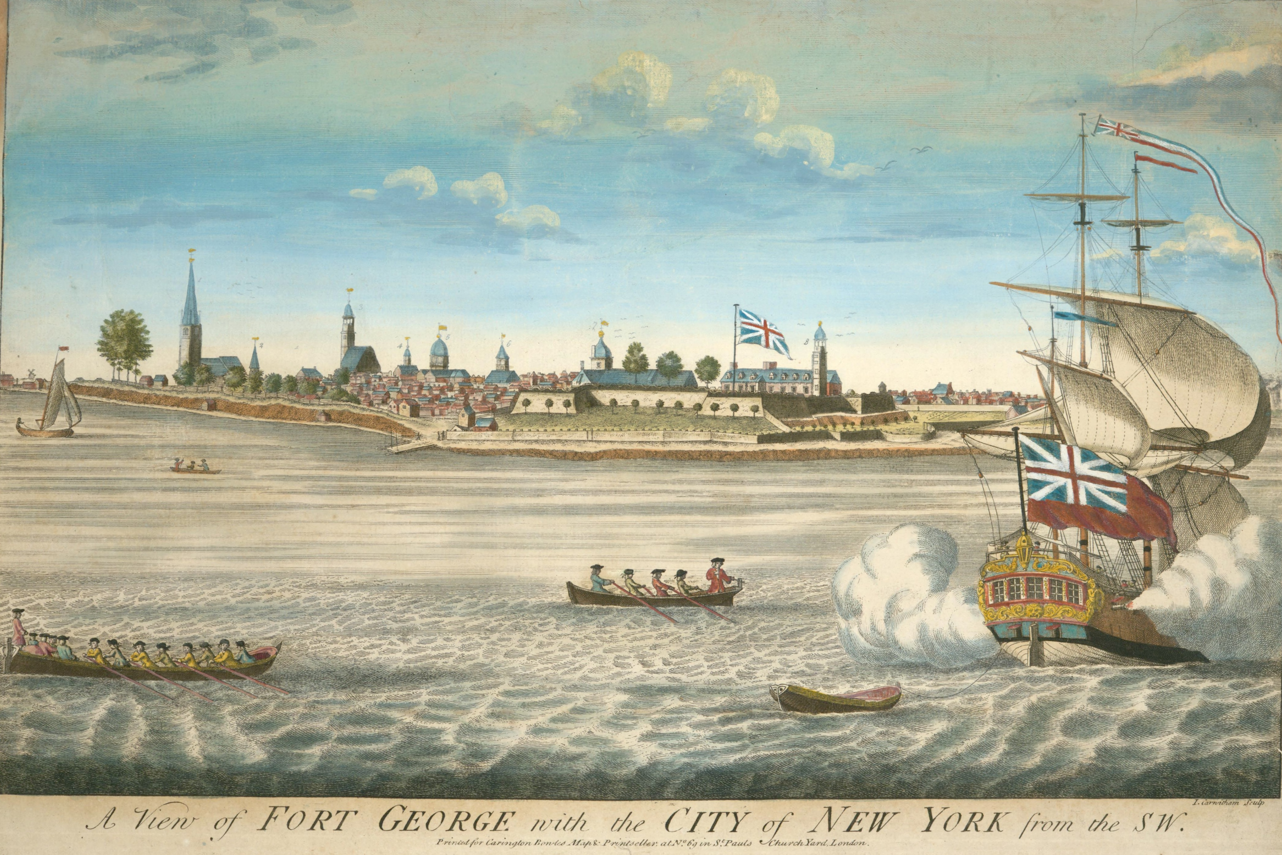 A view of Fort George with the city of New York, from the SW